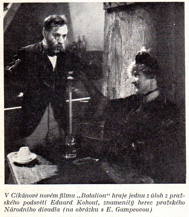 Czech actors Eduard Kohout and Milada Gampeová, movie Batalion, 1937